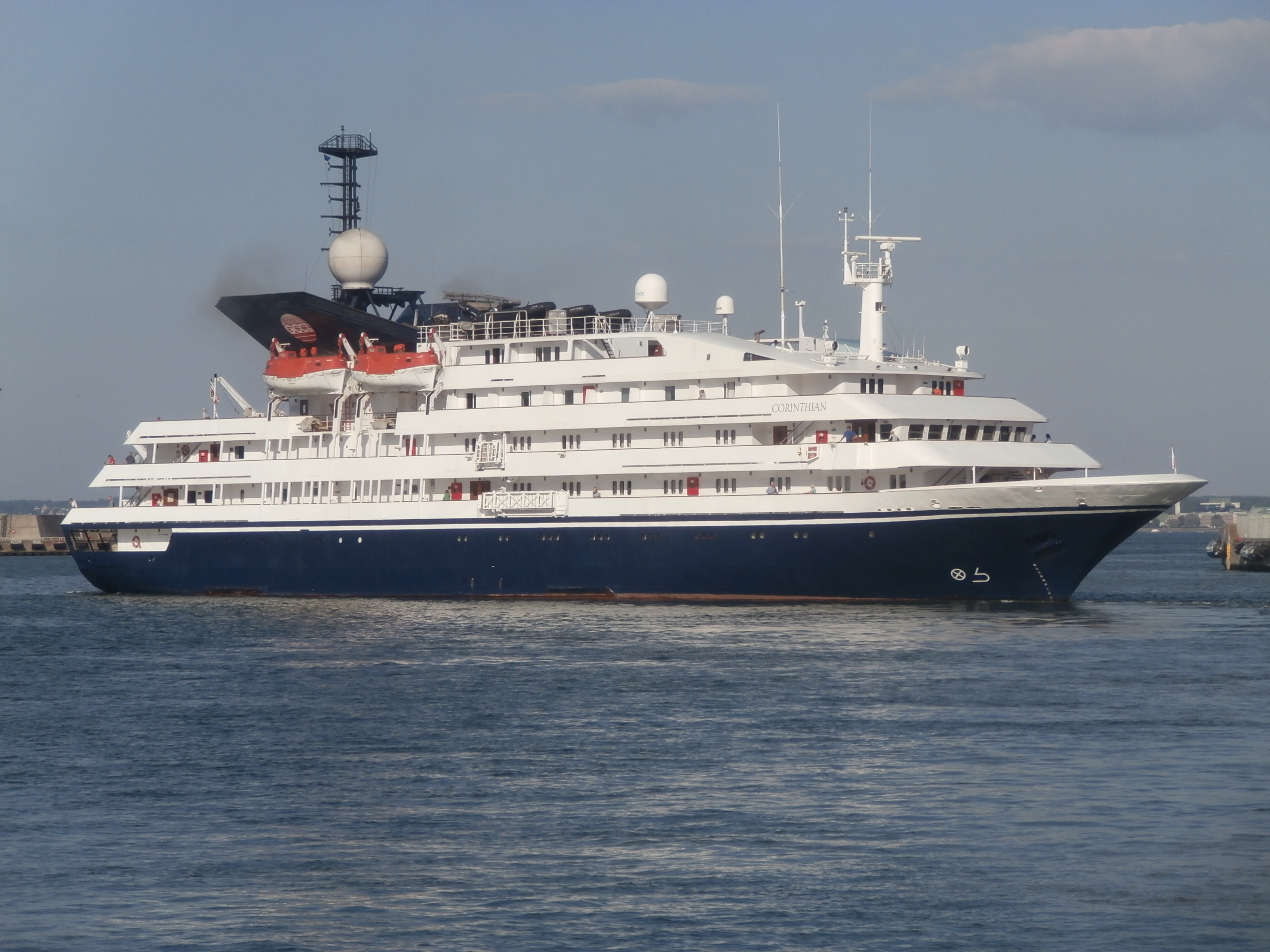 Corinthian turning to port side in Tallinn 24 August 2015